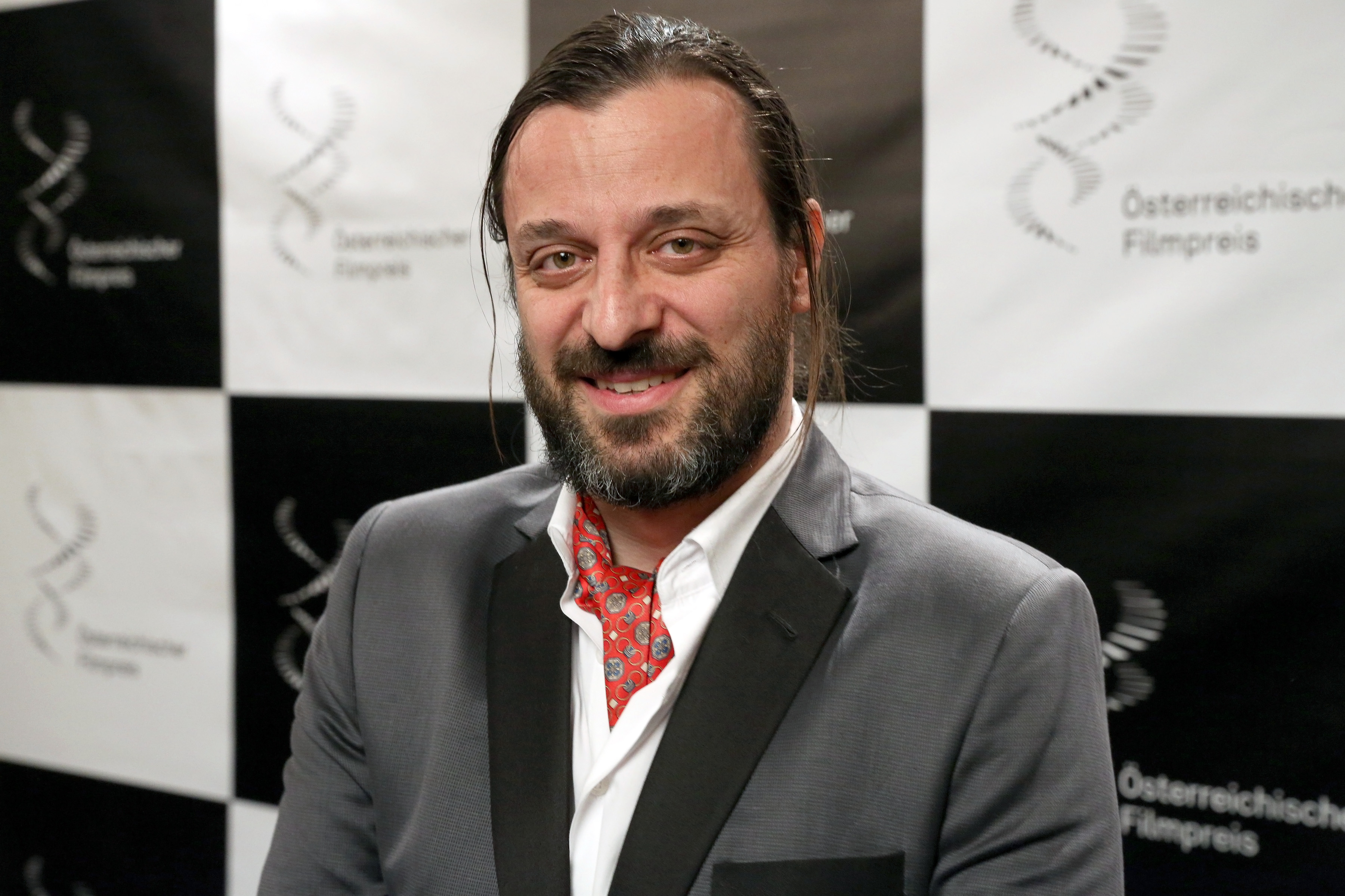 Alexander Dumreicher-Ivanceanu at the Austrian Film Awards 2015 at Rathaus, Vienna,Austria.